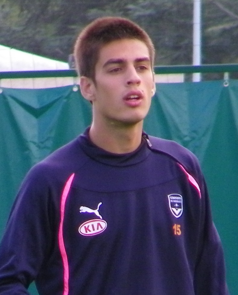 Vujadin Savic